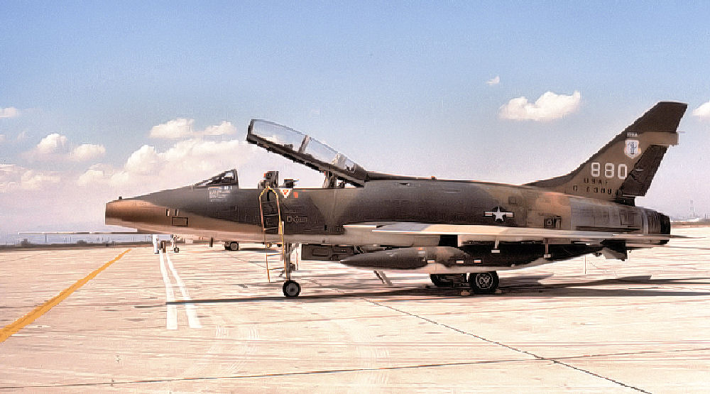 124th Tactical Fighter Squadron - North American F-100F-10-NA Super Sabre 56-3880 Aircraft retired to MASDC Aug 12, 1977 as FE0357. Returned to service. Then retired again to AMARC as FE0639 Apr 11, 1991. Conversion to QF-100F target drone was cancelled. Still on AMARC inventory Jan 15, 2008.